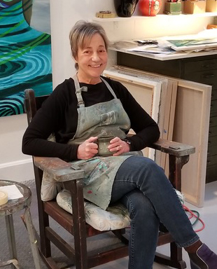 Portrait of artist Barbara Grad in her studio in 2017.